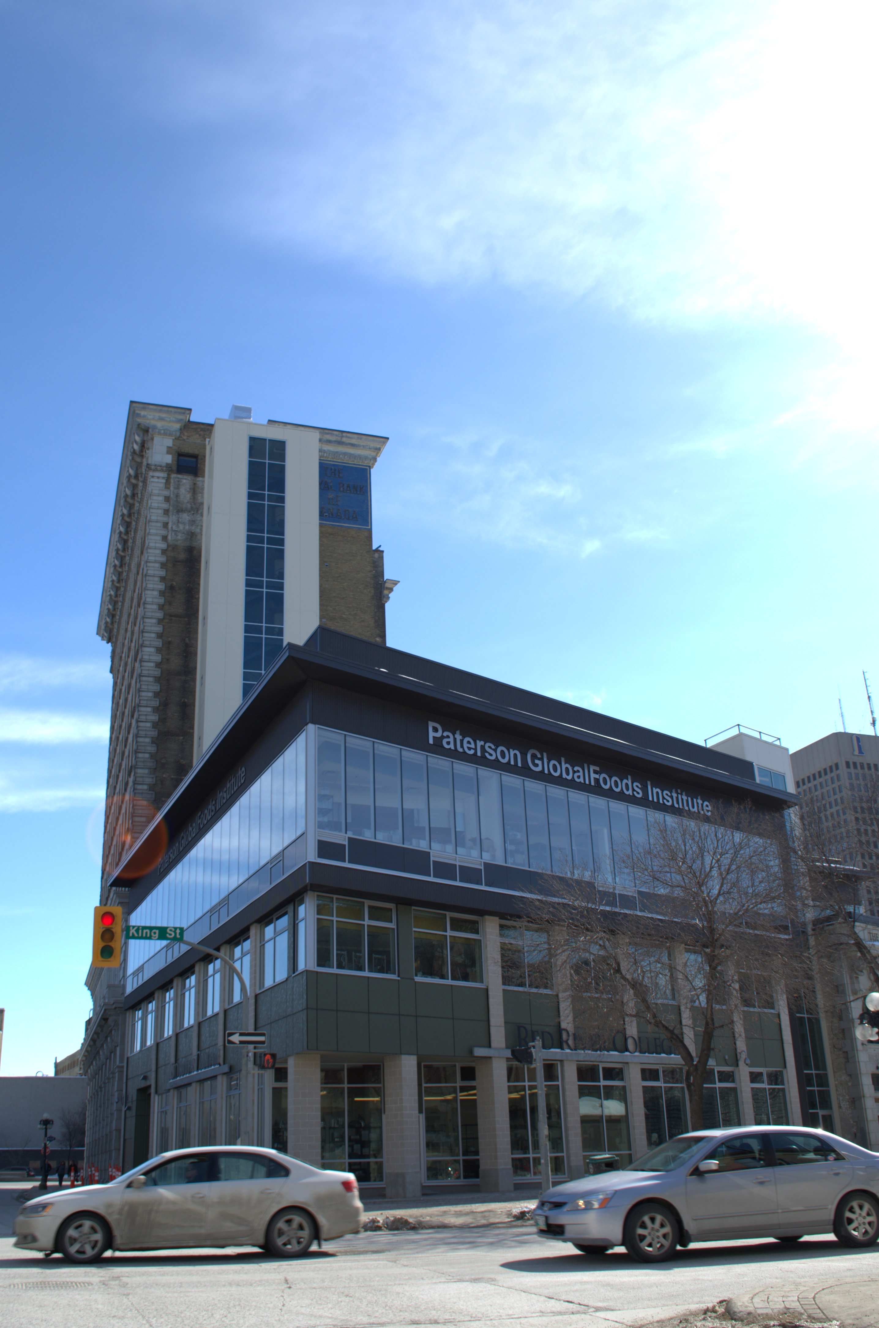 Red River College - Paterson GlobalFoods Institute in downtown Winnipeg's Exchange District